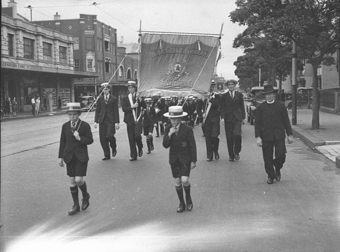 Format: Photograph Find more detailed information about this photograph: .au/item/itemLarge.aspx?itemID=24621 From the collection of the State Library of New South Wales